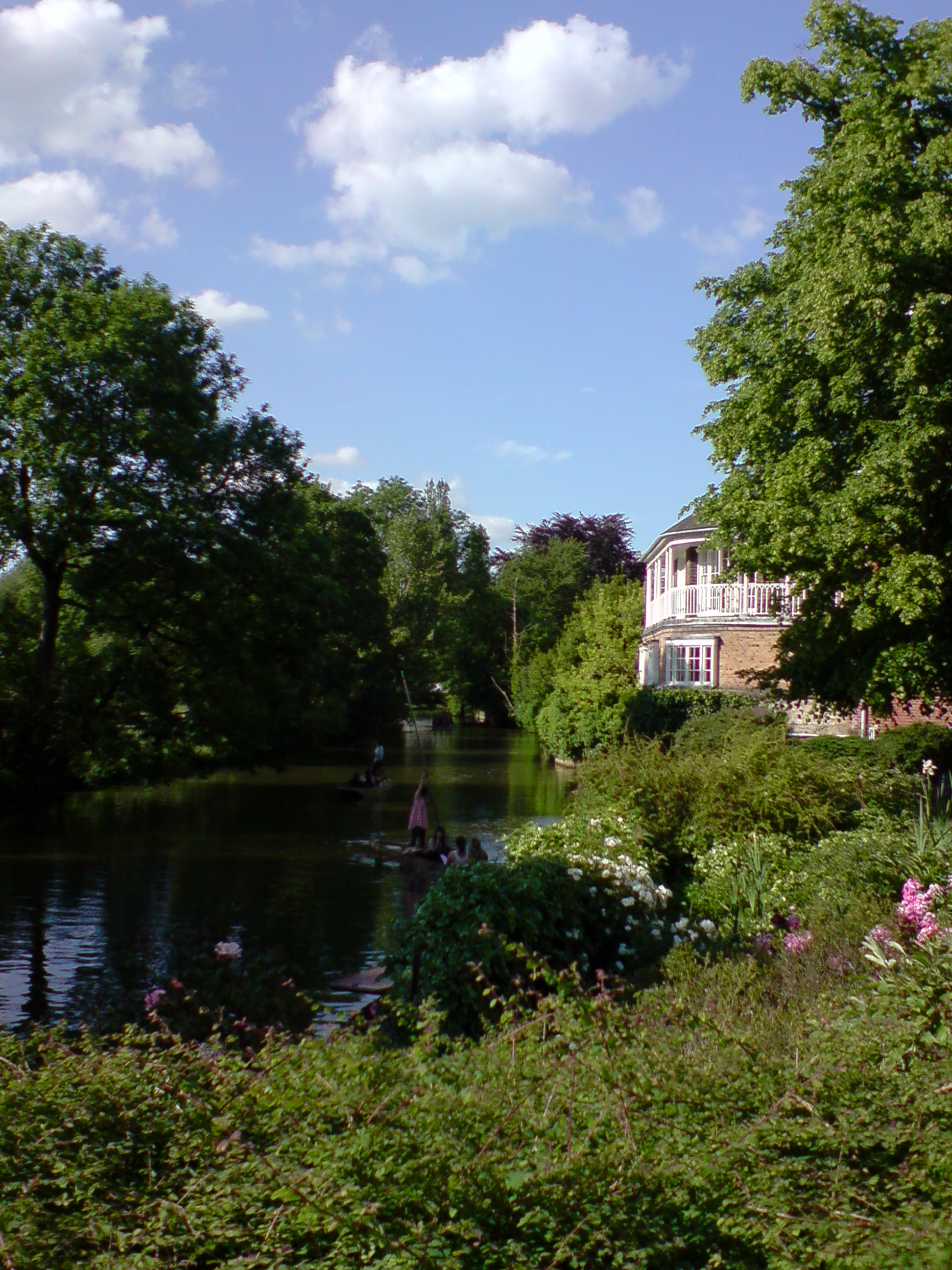 People punting by the Milham Ford Building at St. Hilda's College, Oxford